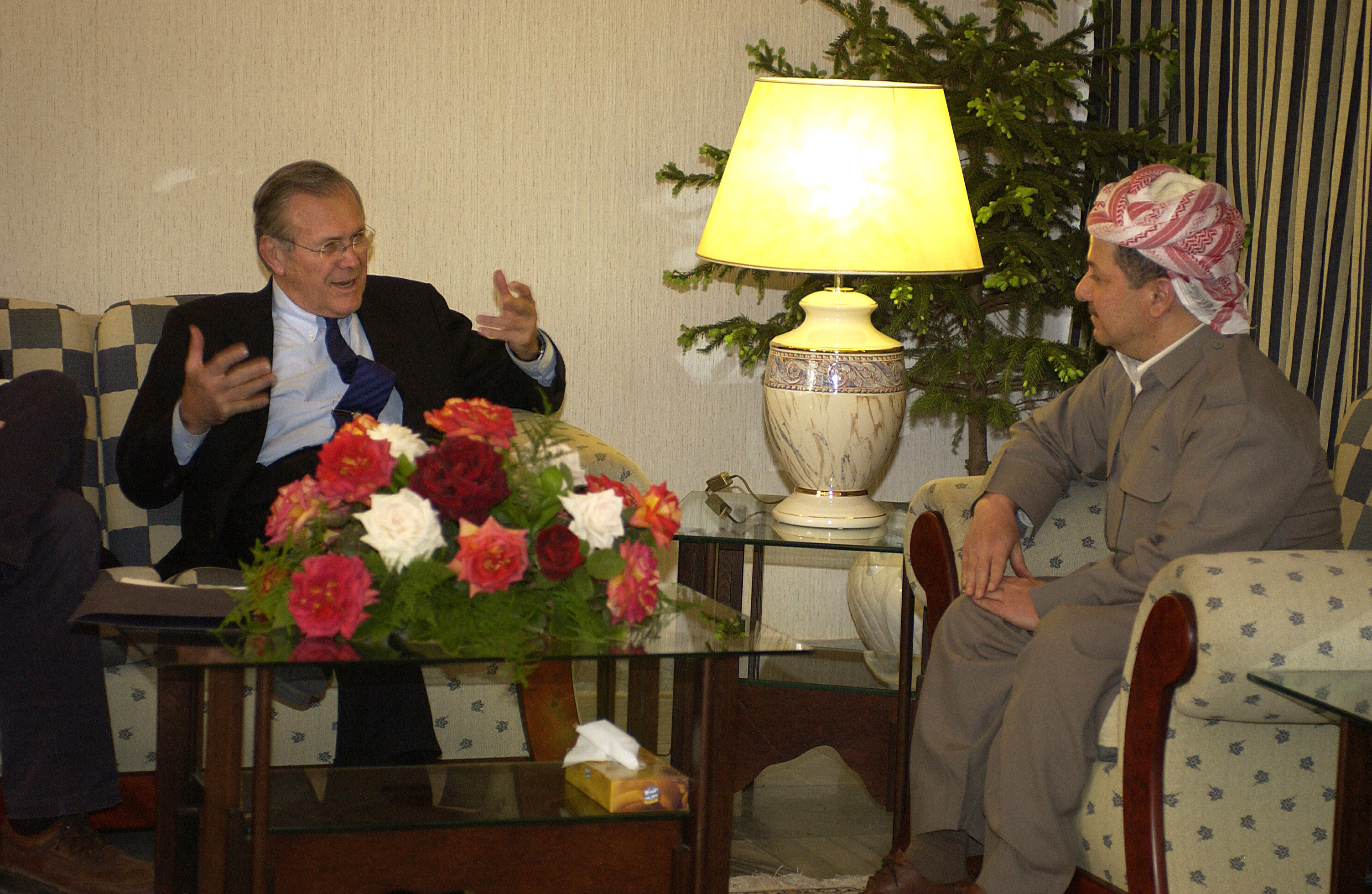 Secretary of Defense Donald H. Rumsfeld meets with Massoud Barzani and other leaders of the Kurdish Democratic Party in Sala Huddin, Iraq, on April 12, 2005. . Rumsfeld is in Iraq to visit with U.S. and coalition forces and to meet with the newly elected members of the Iraqi government.